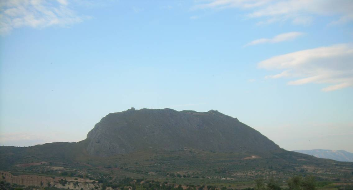 View of Acrocorinth rock and castle, Corinth, Greece